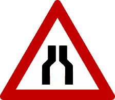 Diagram of road signs of Luxembourg